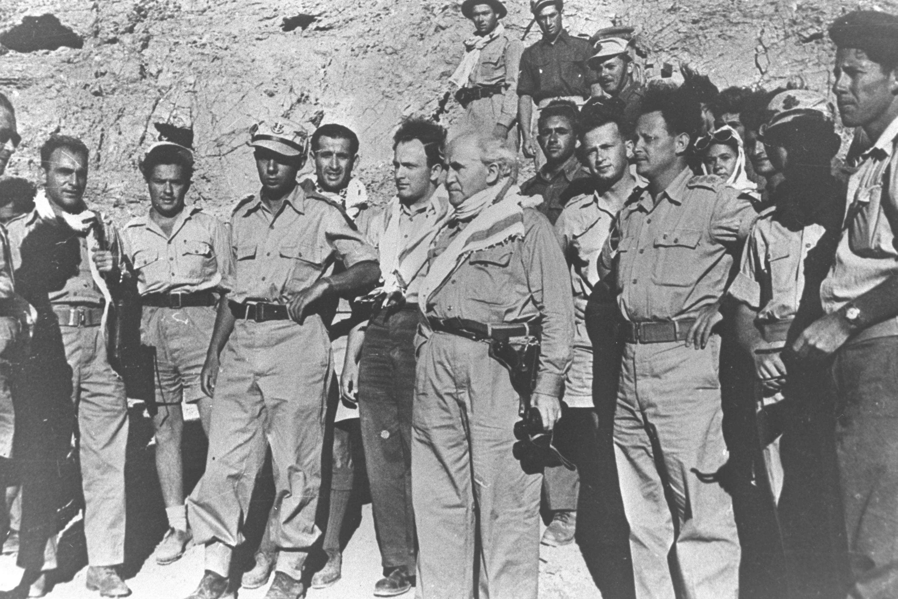 Yitzhak Rabin with PM David Ben-Gurion and Southern Front Commander Yigal Allon in the southern front, during the War of Independence. For more from the IDF